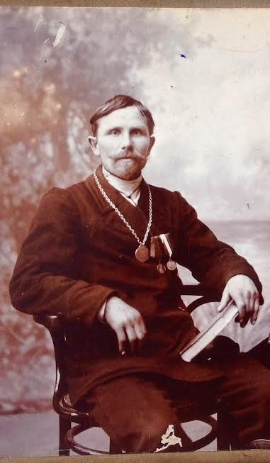 Волостной старшина Березовской волости, Кунгурского уезда, Пермской губернии, Елисеев Семен Алексеевич, 01.02.1877 - 03.09.1955 гг